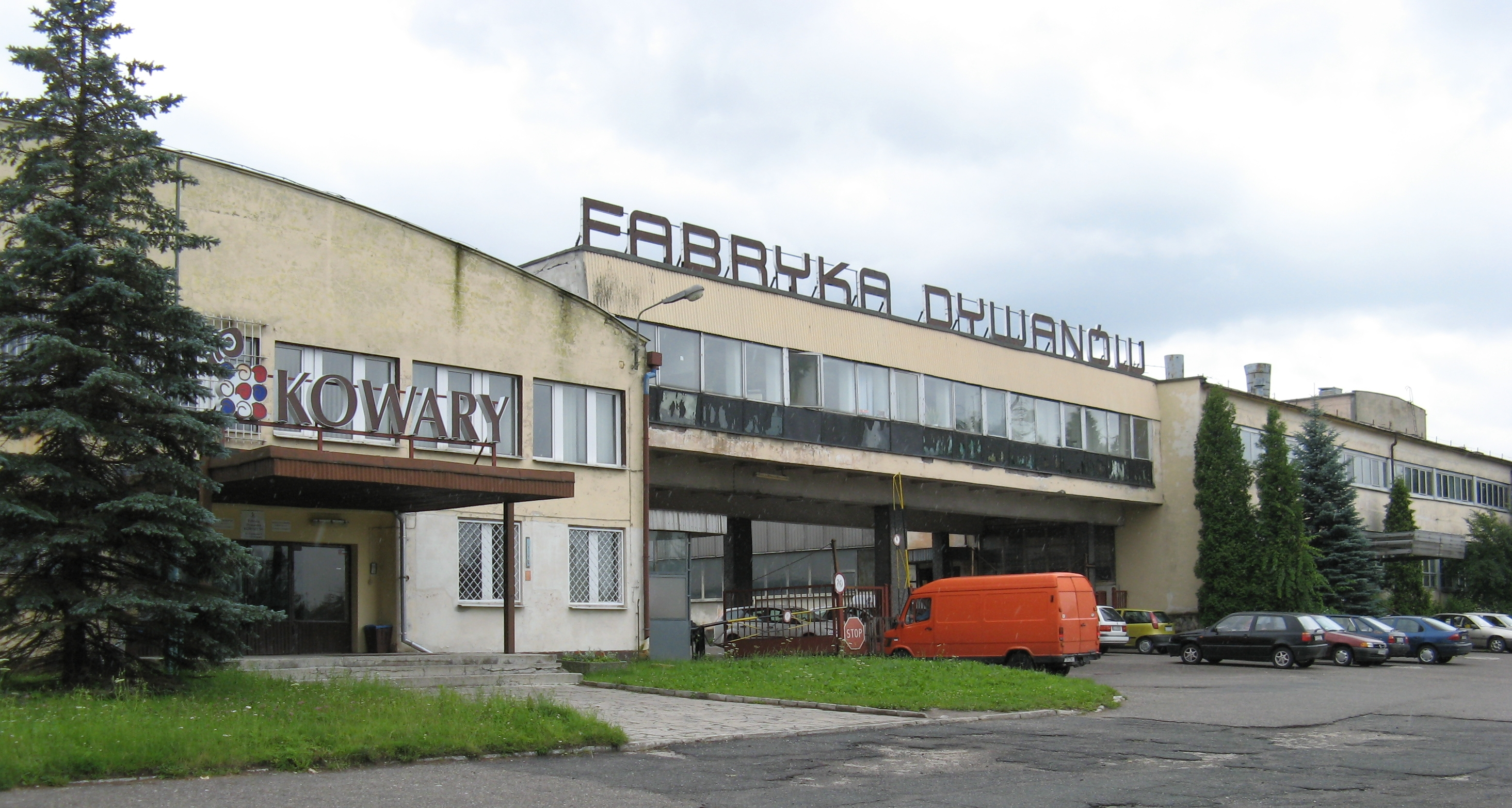 Kowary; Carpets' factory (front view; from NNW direction)